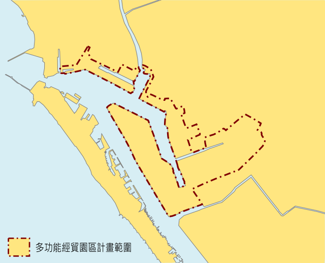 Map of the Kaohsiung MCT Park